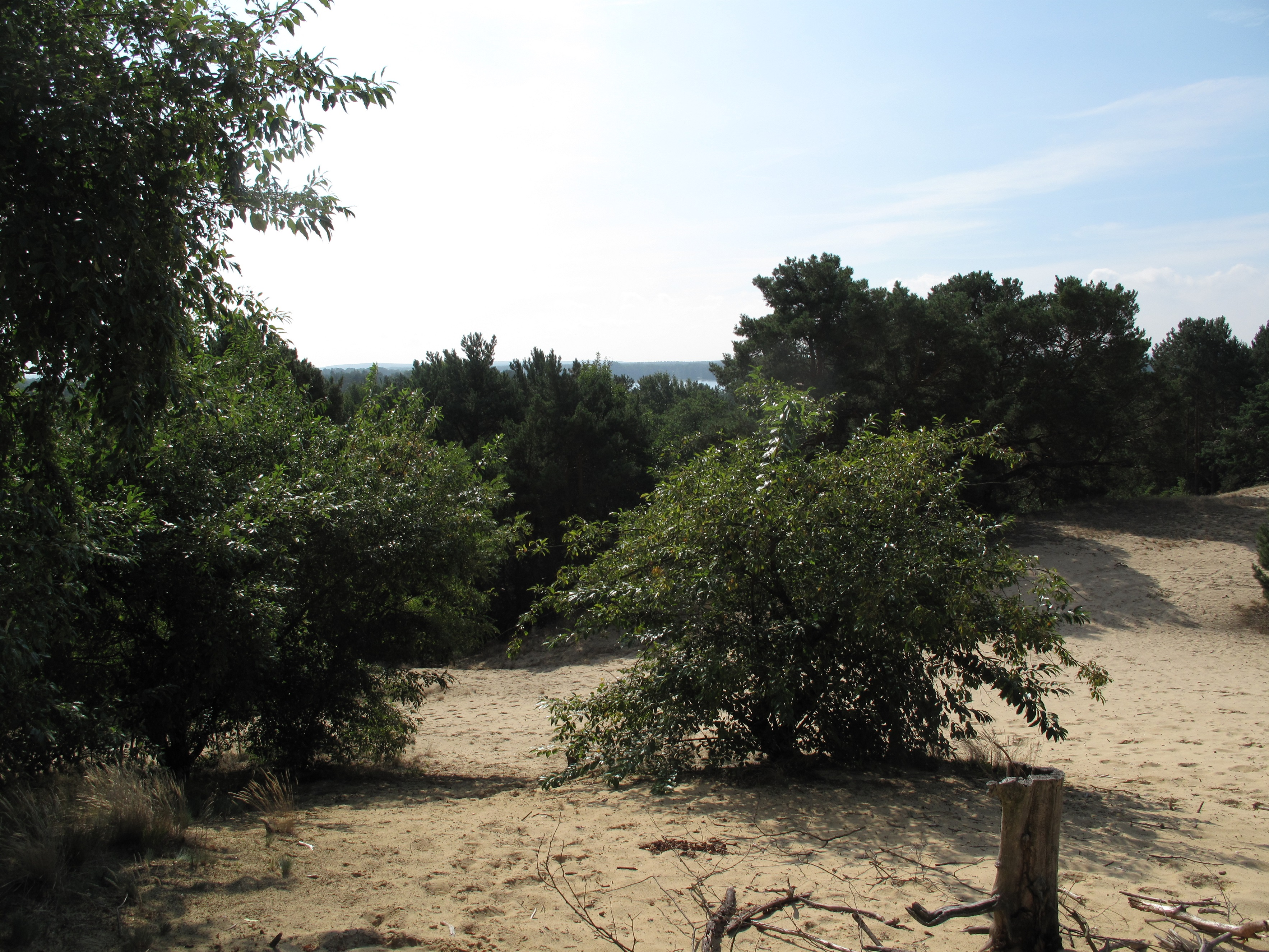 The „Binnendüne Waltersberge“ is one of the largest inland dunes in Brandenburg, Germany. The dune is situated in the town Storkow, District Oder-Spree, just over the eastern border of the Dahme-Heideseen Nature Park. The centre of the area, which covers about 14 hectare, is designated as a Naturschutzgebiet (protected area) and Natura 2000-area. Nearly just beside the northern bank of the Großer Storkower See (lake), rises above the dune with its largest peak, the Storkower Weinberg (69 metres), up to 32 metres over the sea.